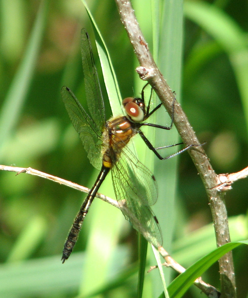 Racket-tailed Emerald (Dorocordulia libera), Ottawa, Ontario, Canada